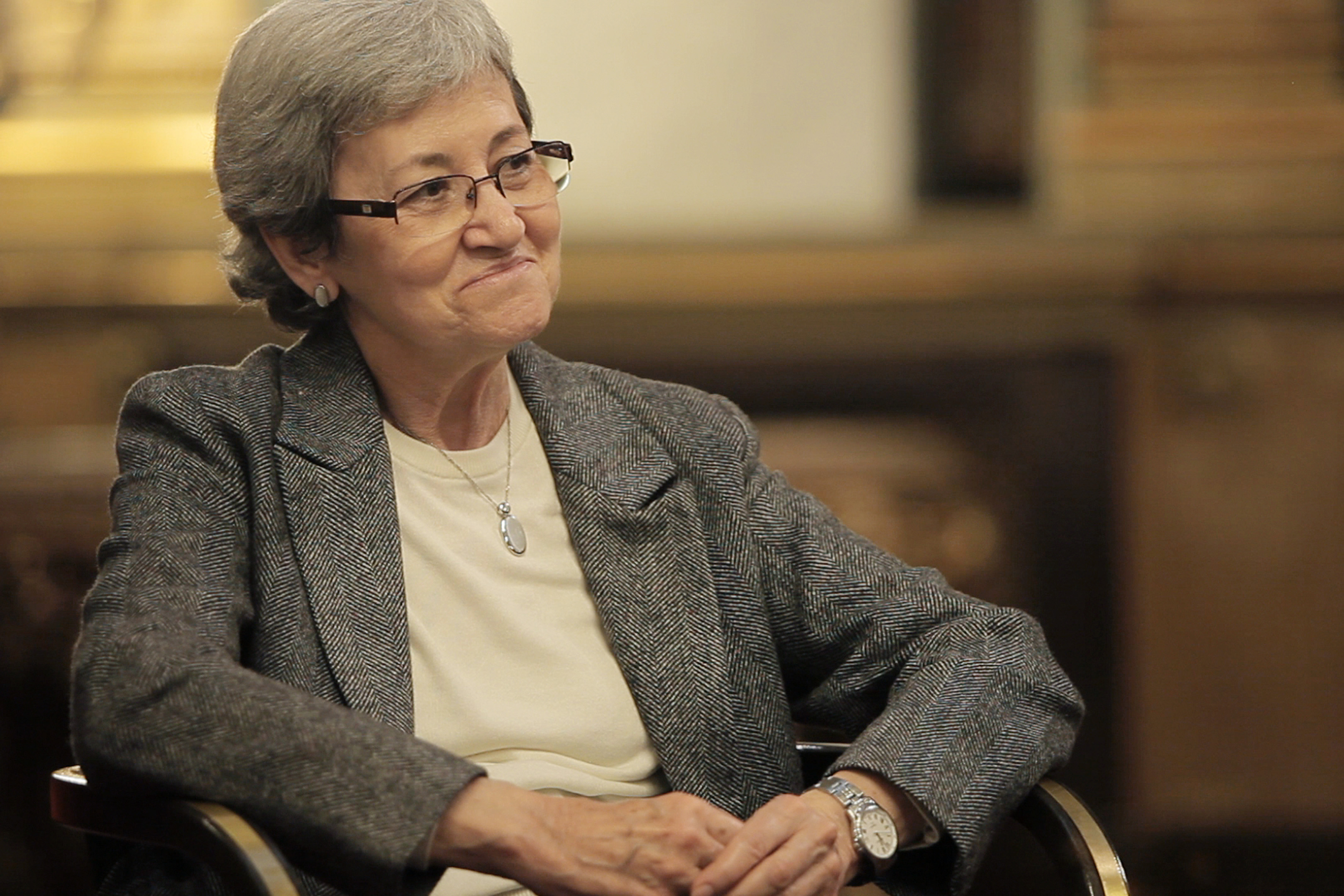 Carlota Bustelo in the film "LasConstituyentes" directed by Oliva Acosta. Carlota Bustelo García del Real. 1939, Madrid. Feminist. PSOE. Involved in creating the Spanish Women’s Liberation Front. First speech of the PSOE on women in Congress in 1975. Divorce Law. Spain’s member of CEDAW within the UN. First Director of the Spanish Women’s Institute in 1983. MP for Madrid. Key player in the debate on the sexual and reproductive rights of women in the 1977 constitution. Photo from the documentary film #lasconstituyentes (2011) directed by Oliva Acosta